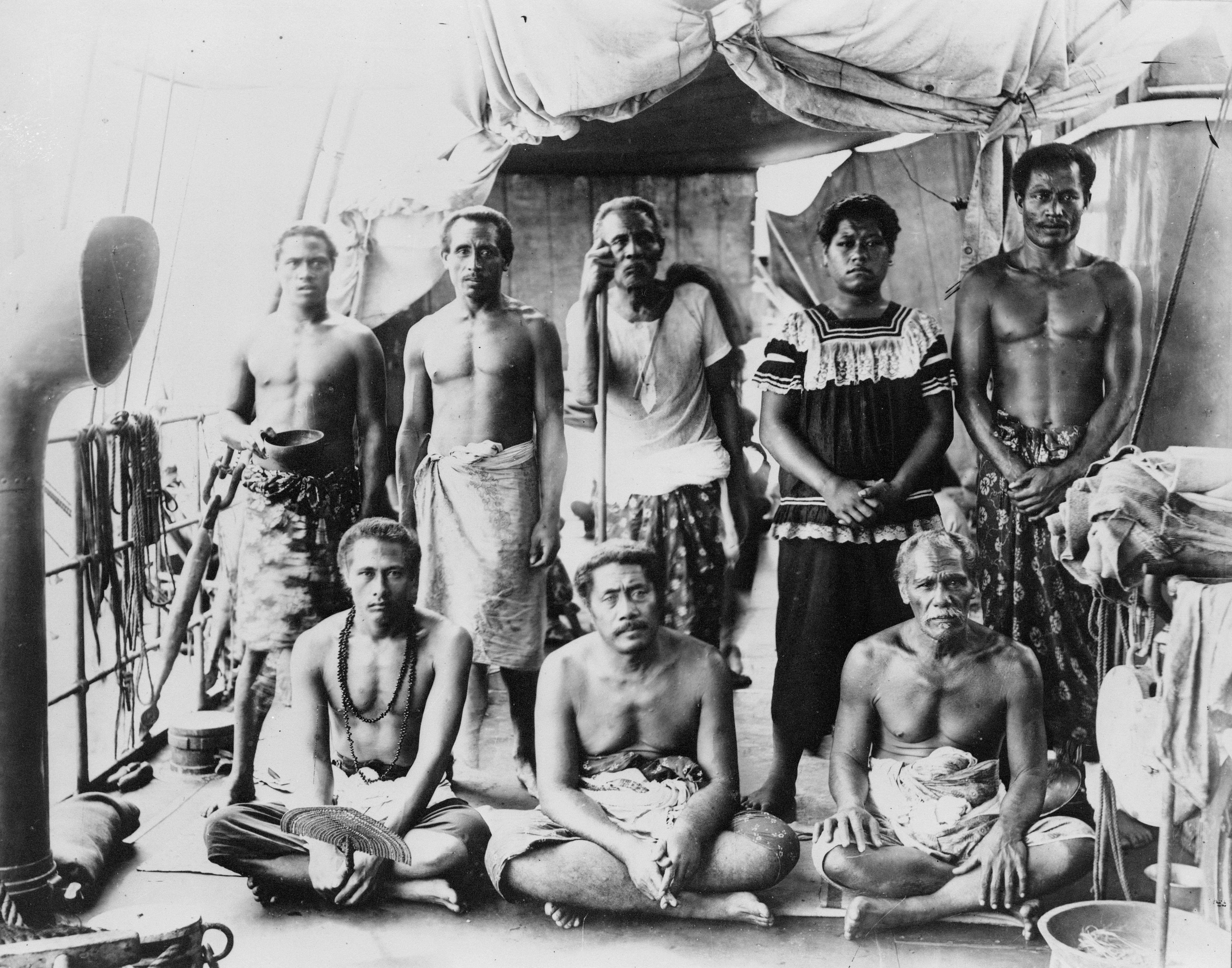 Lauaki Namulau'ulu Mamoe (standing 3rd from left with orator's staff) and other chiefs aboard German warship taking them to exile in Saipan, 1909. Gagana Samoa: Lauati Namulau'ulu Mamoe (tu tolu i tua mai i le itu tauagavale) ma nisi matai i luga o le va'a taua Siamani, i le momoliga o latou e fa'apagota i motu o Marianas, 1909.